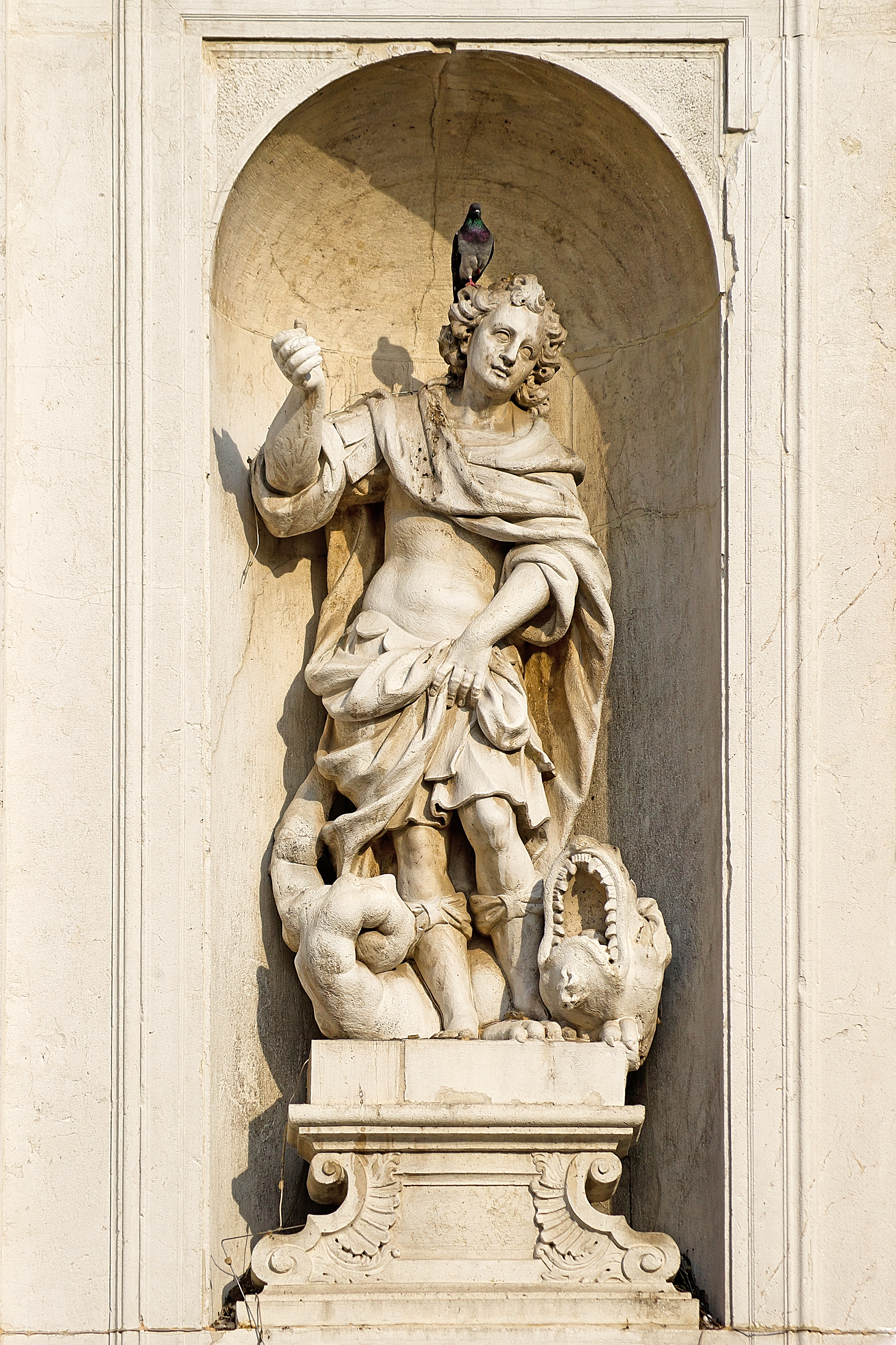 San Teodoro by Paolo Callalo- Detail from the facade of the church of San Tomà, by Francesco Bognolo (1742), in Campo San Tomà square, Venice.